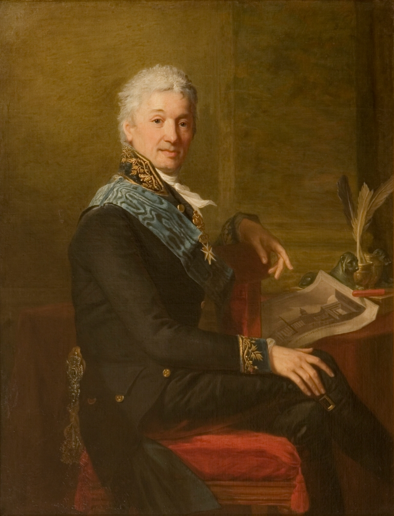 Portrait of Count Alexander Stroganoff, the President of the Academy of Arts (1800-1811)